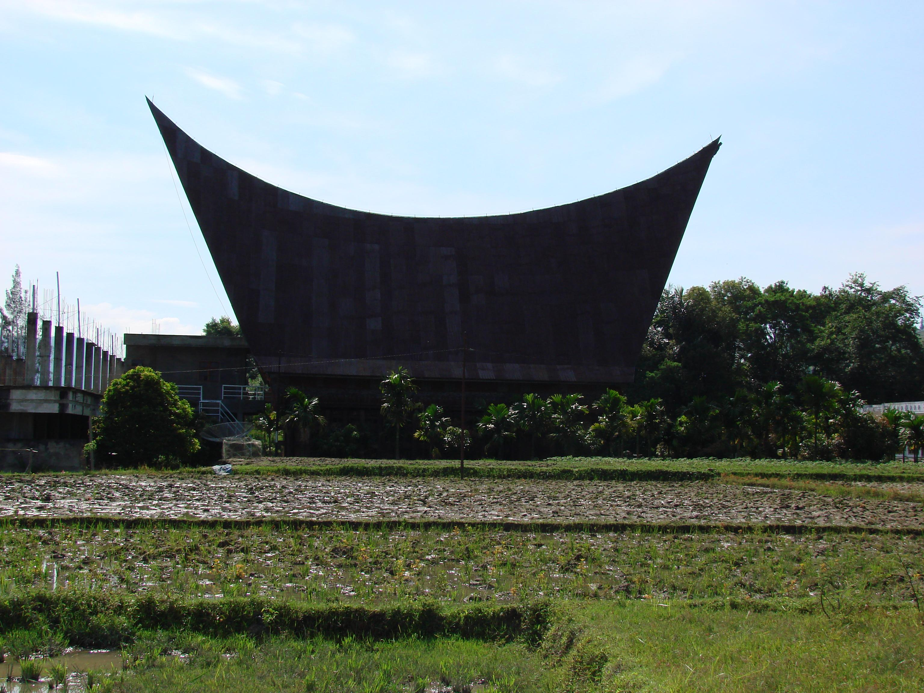 I took this photo when i visited Lake Toba